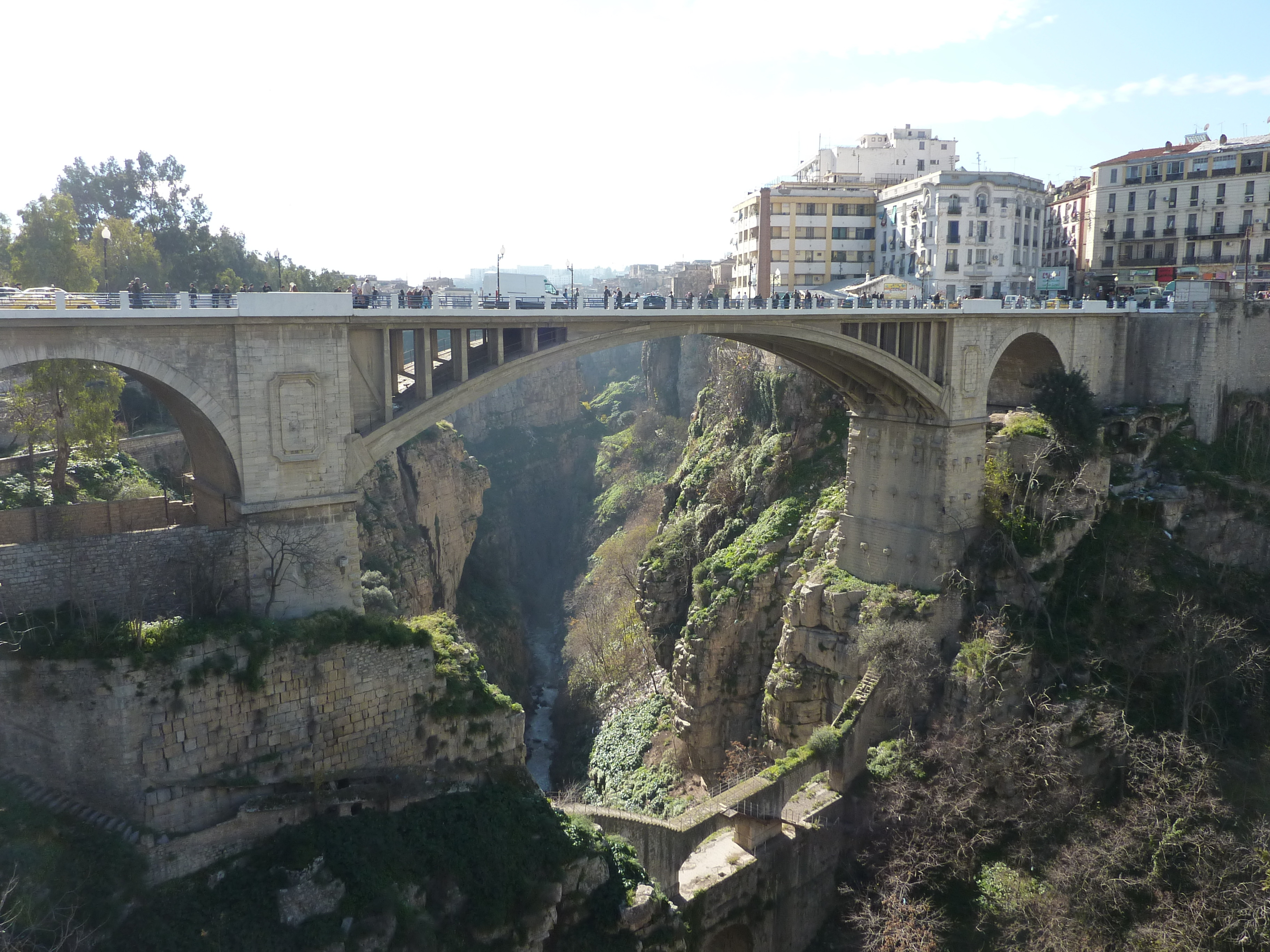 Constantine bridge algeria